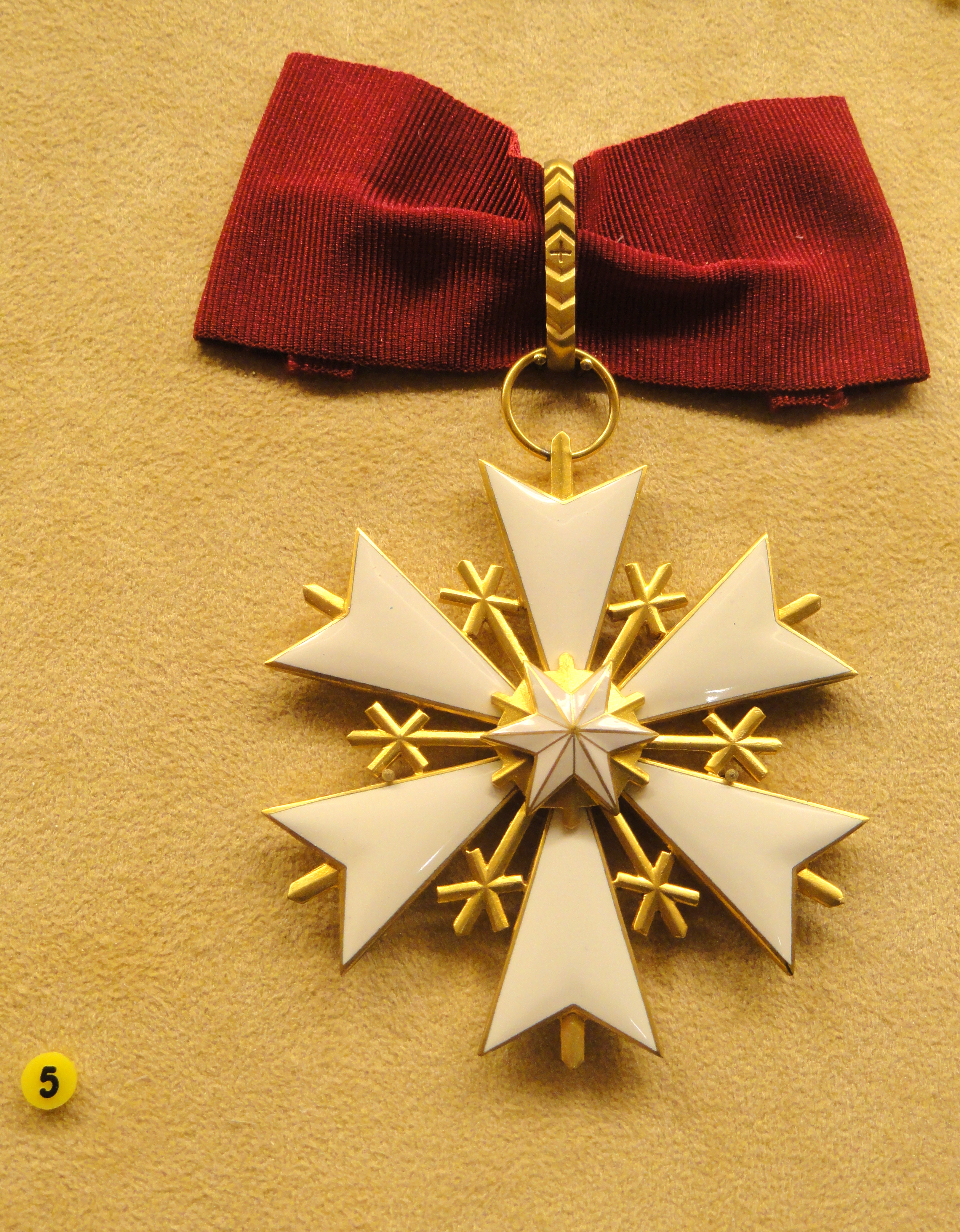 Award in the National Museum of Finland, Helsinki, Finland. This artwork is in the public domain because the artist(s) died more than 70 years ago.